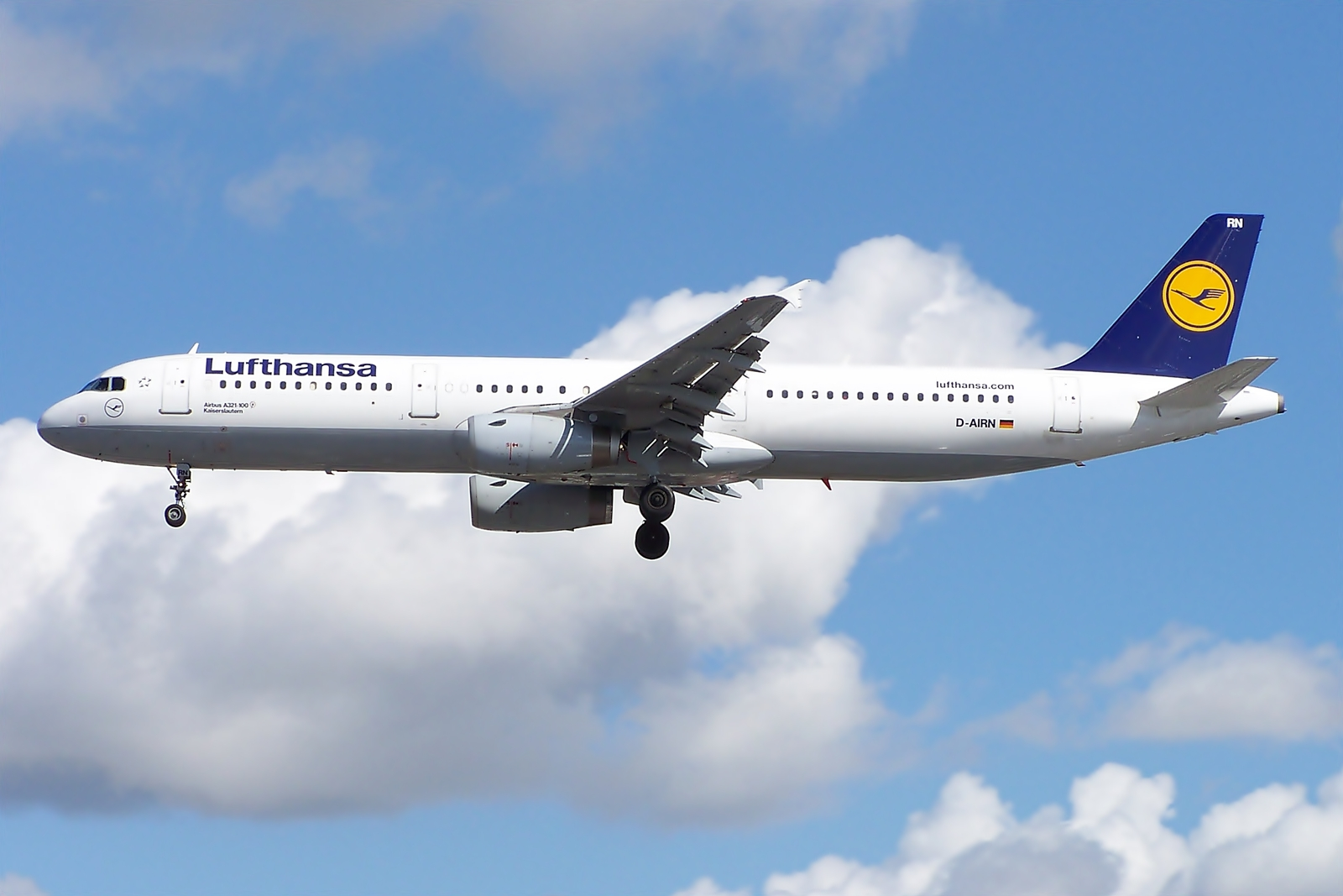 D-AIRN A321 Lufthansa